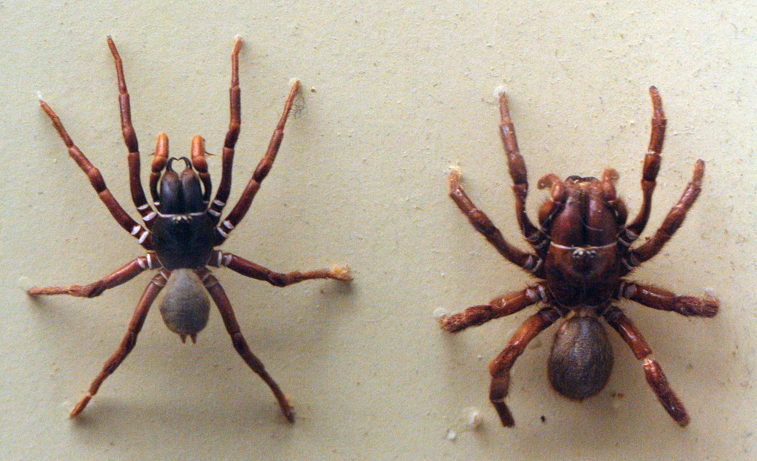 Specimen in the Australian Museum spider display.